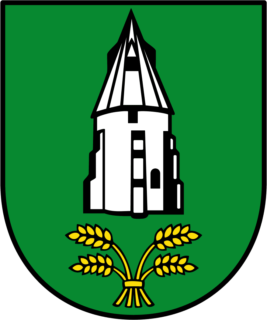 Coat of Arms of Betzendorf